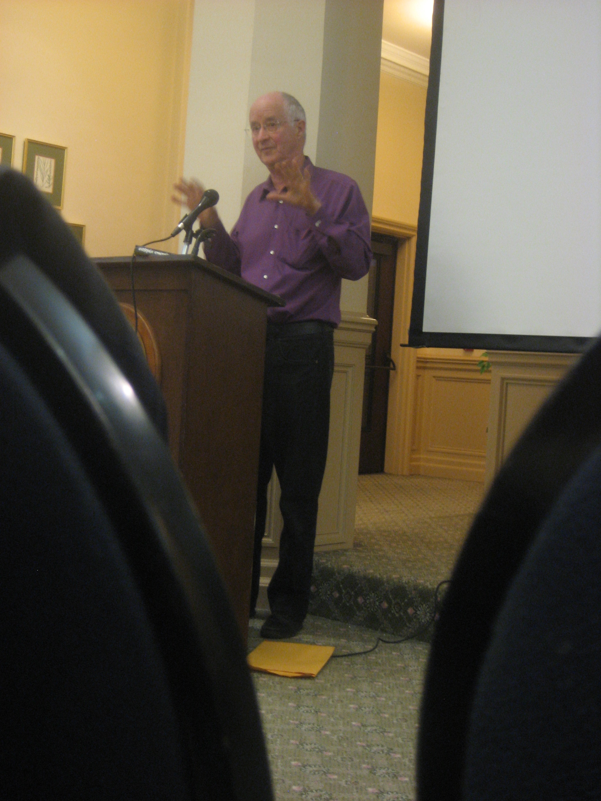 Ernest Callenbach, author of Ecotopia, speaking at USF.